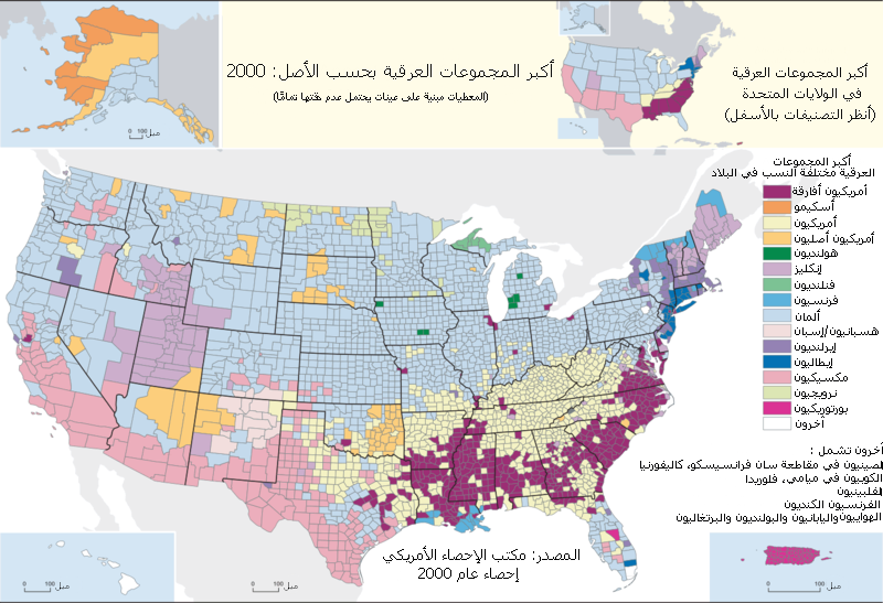 A chart of the top reported ancestries in the US, as provided by the 2000 census. Shaded color represents the largest number of respondents (a plurality) from sample. Areas with the largest "American" ancestry populations were mostly settled by English, French, Welsh, Scottish and Irish. (Above explanatory text originally by users Quasipalm and W.marsh.) Based on page 8 of , processed with pstoedit, skconvert and Inkscape. Intended to replace other versions like *Image:Census-2000-Data-Top-US-Ancestries-by-County.jpg *Image:Census-2000-Data-Top-US-Ancestries-by-County.png Also, these derived images should be replaced by new versions derived from this one: *Image:Census-2000-Data-Top-US-Ancestries-by-County-german.jpg *Image:Image-Census-2000-Data-Top-US-Ancestries-by-County fr_FR.png *Image:Census-2000-Data-Top-US-Ancestries-by-State.jpg